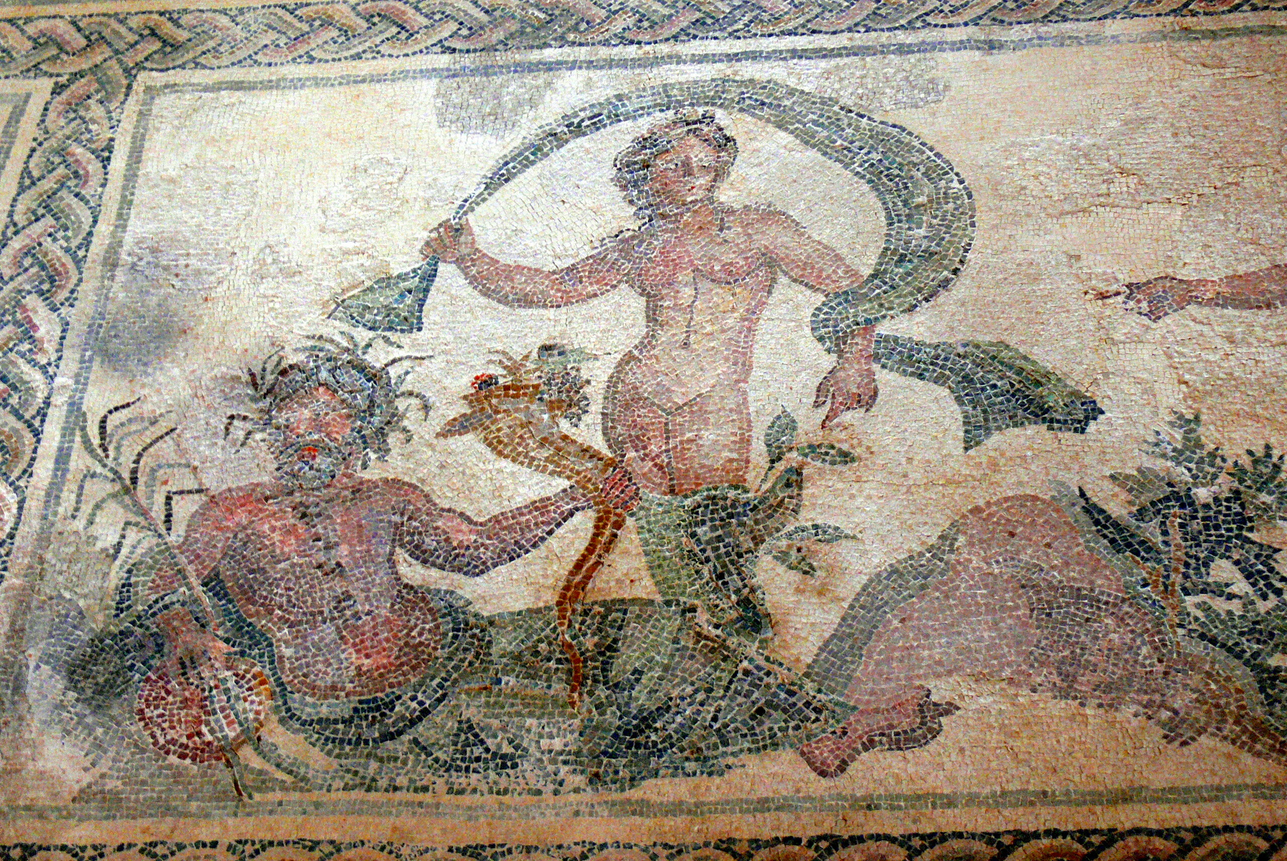 Paphos Archaeological Park. House of Dionysos: Apollo and Daphne - Daphne and her father, river god Peneus ( detail ).